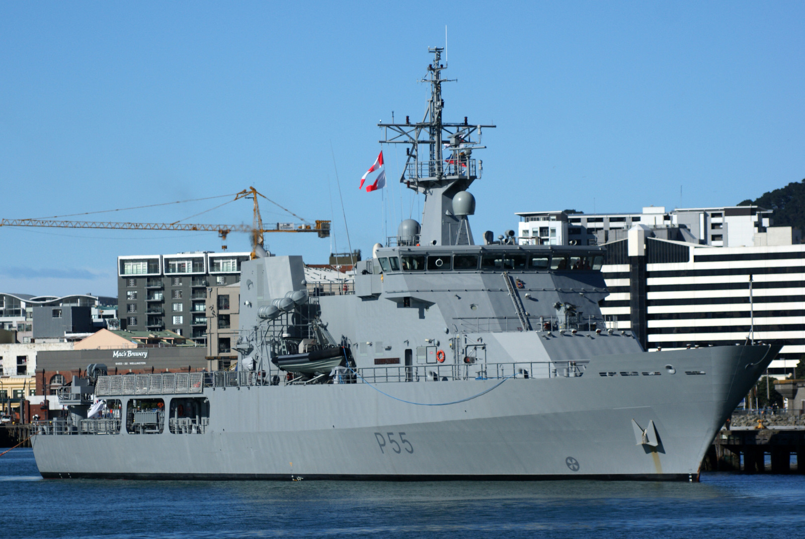 HMNZS Wellington on its first visit to Wellington